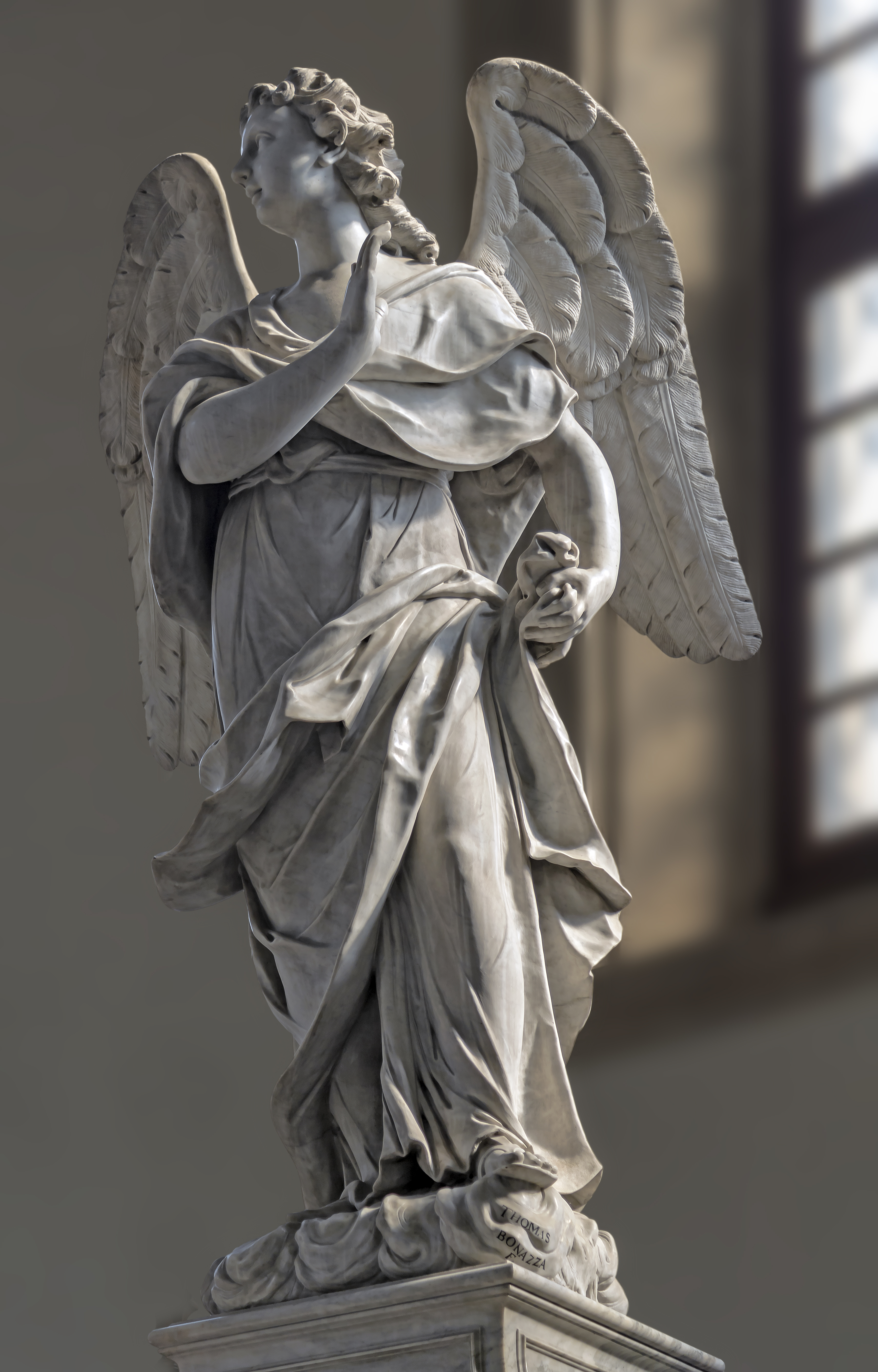 The Baroque altar is due to Giovanni Gloria and Giorgio Massari. It is decorated by two large marble angels, one to the right of Tommaso Bonazza and the other to the left of Jacopo Gabano, both dating back to 1751.